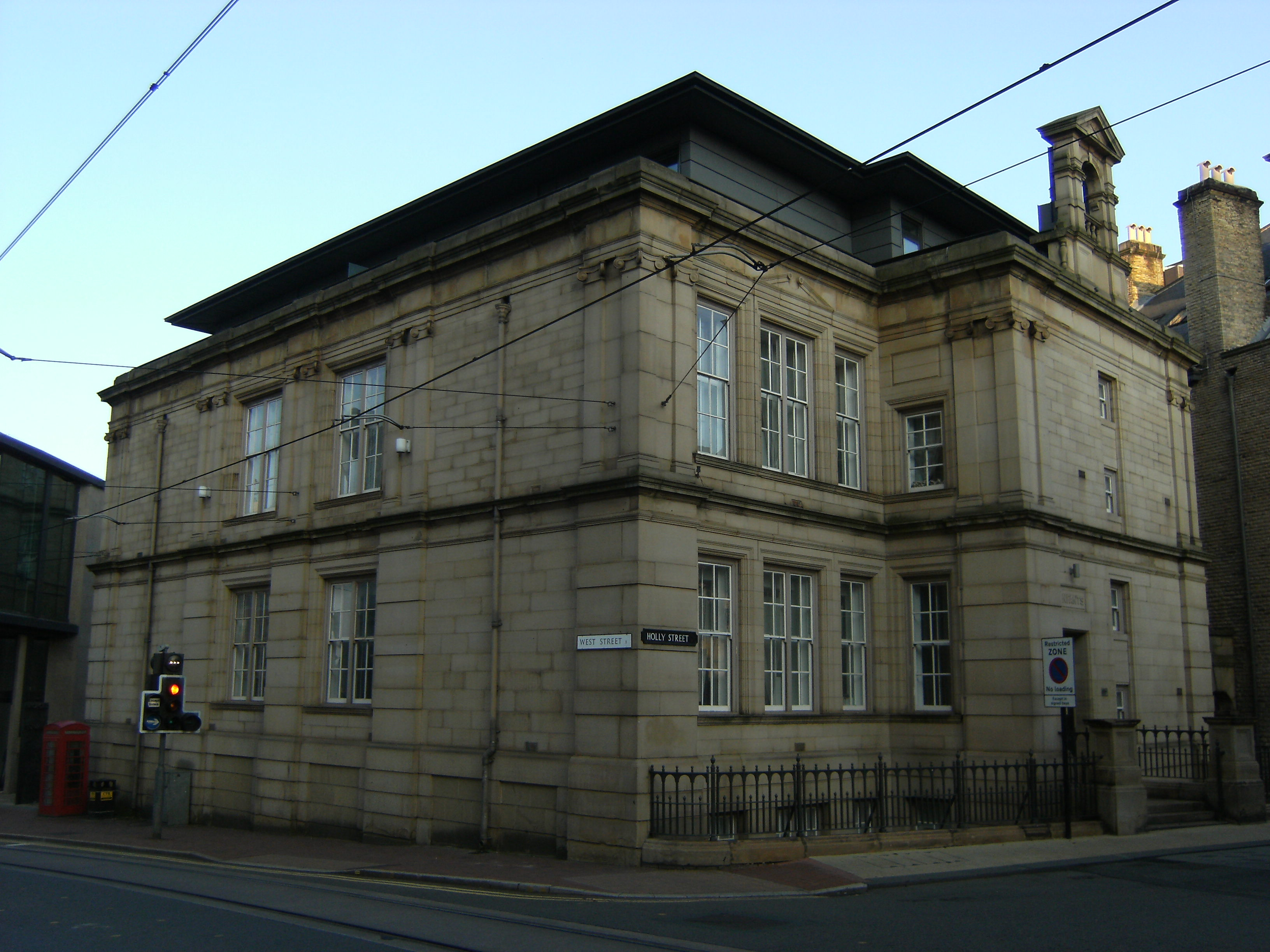 Bow Centre, on Holly Street but now forming part of Leopold Square in Sheffield City Centre